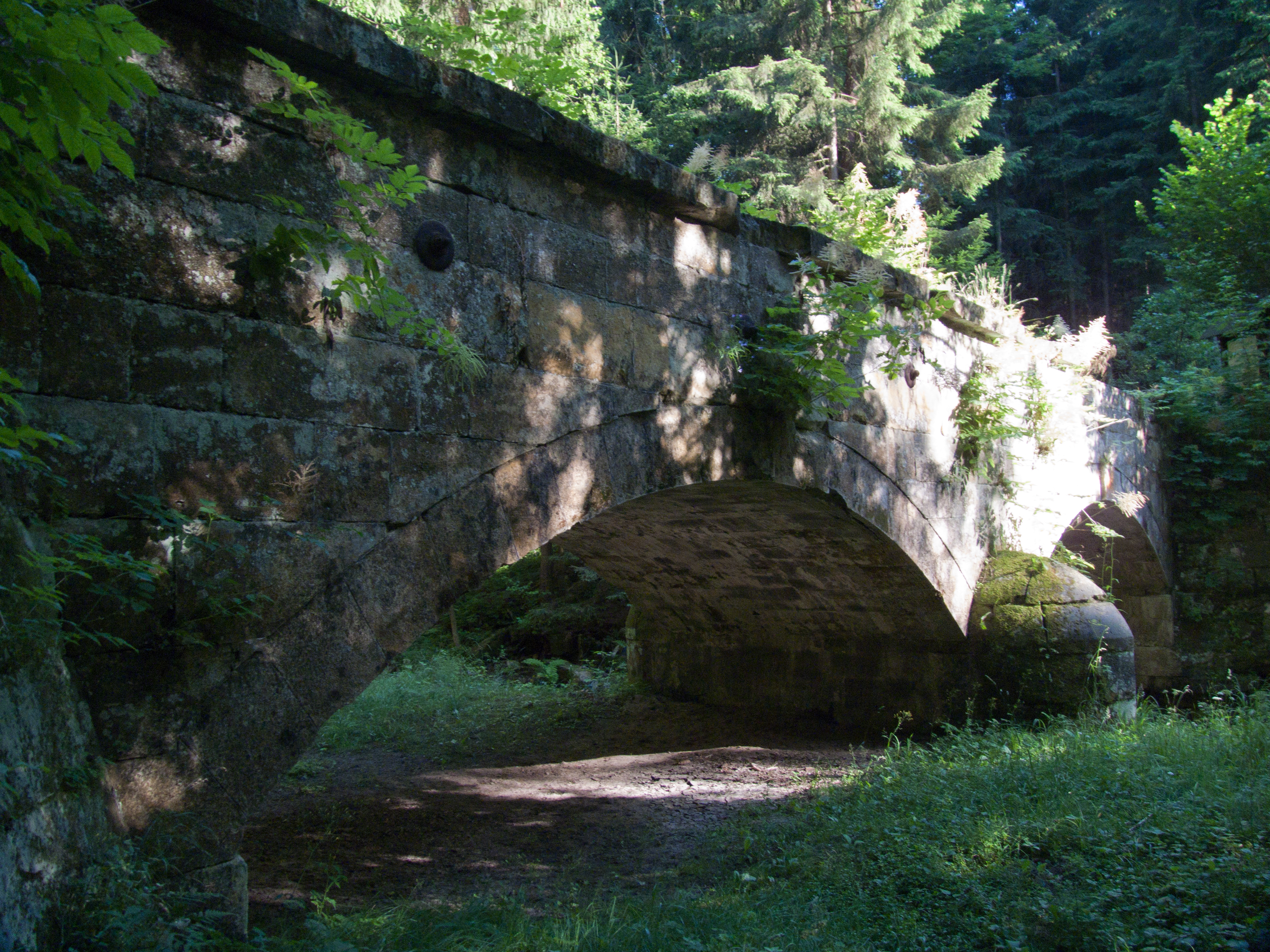 Aqueduct at the village of Chřibská, Děčín District, Czech Republic as seen from the north